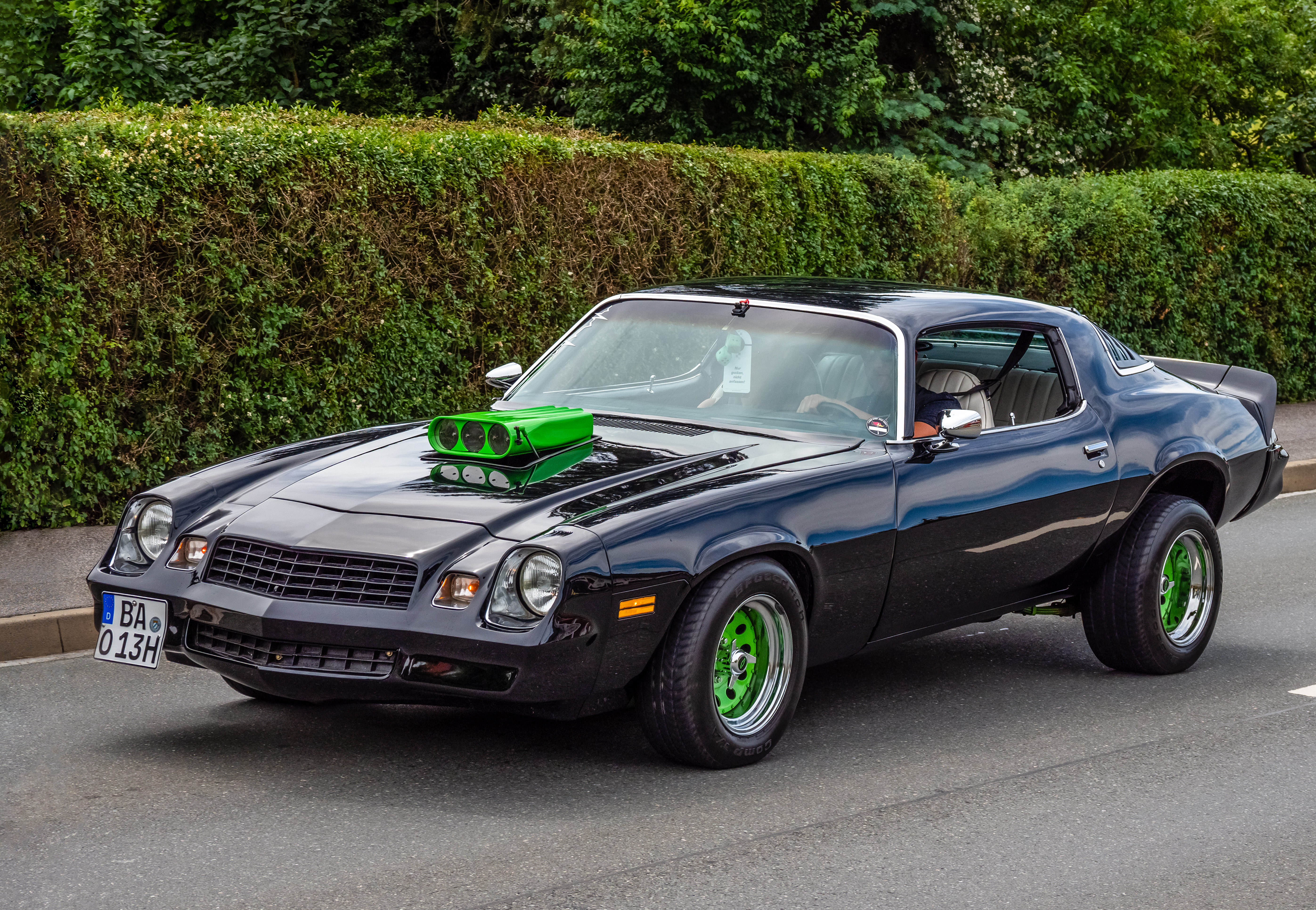 Pontiac Firebird at the Oldtimertreffen Ebern